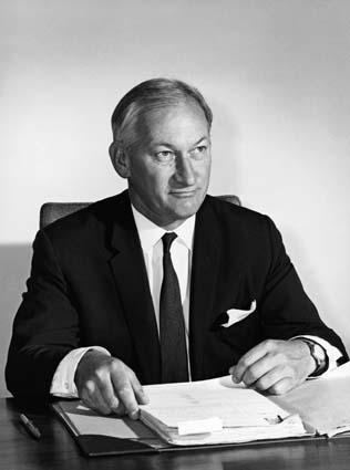 Portrait of Sir Arthur Tange, 1965